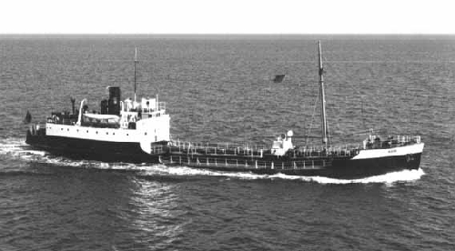 Empire Shetland built at A & J Inglis with Yard No. 1288. Built for the Ministry of War Transport. Sold in 1948 to the Kuwait Oil Co Ltd and renamed Adib. Sold in 1952 to Shell Mex & BP Ltd and renamed BP Transporter. Scrapped in June 1965 in Antwerp, Belgium.